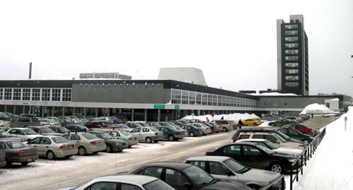 Cégep de Jonquière Pavillon Arguin Winter shot